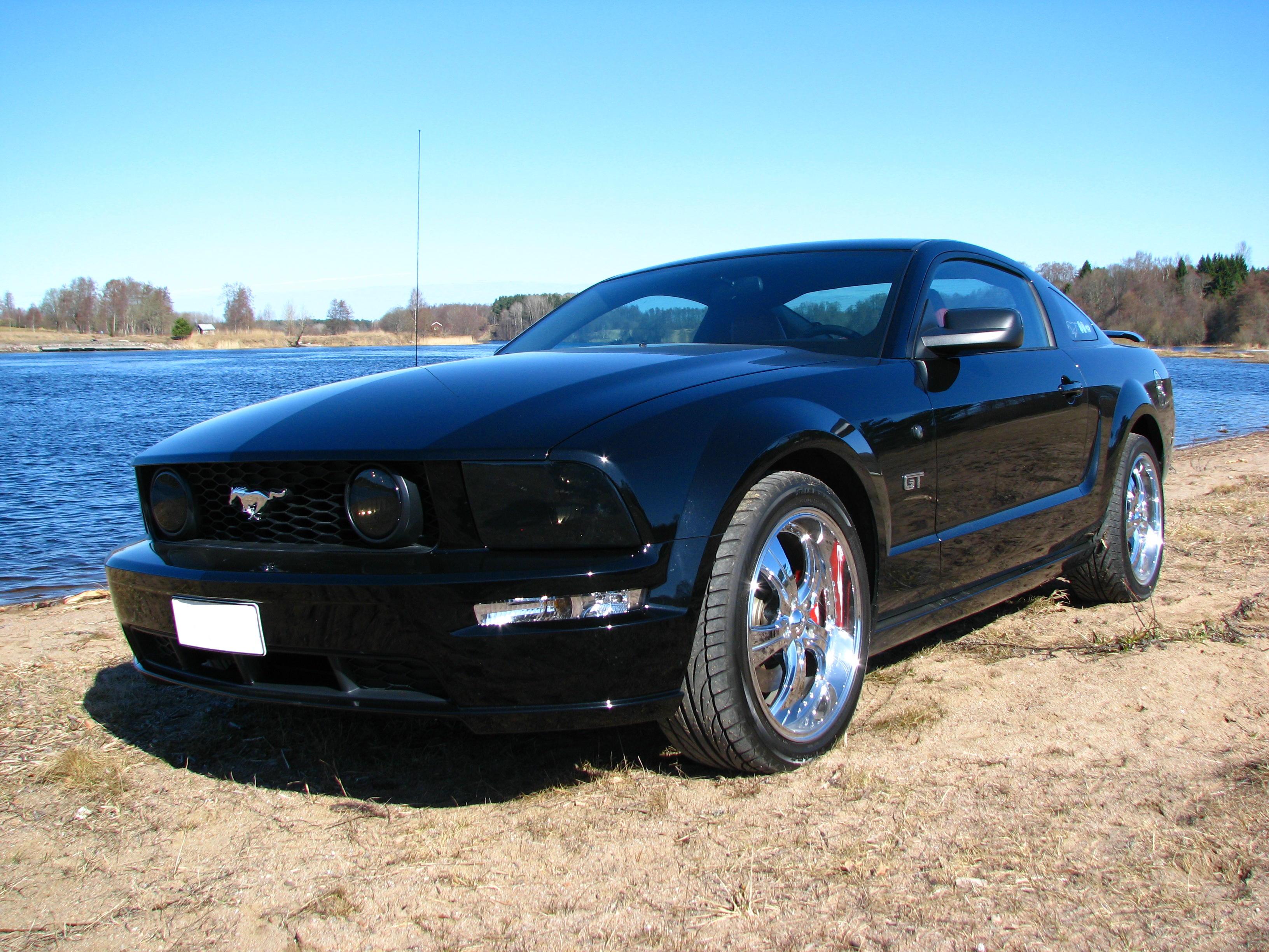 Black Ford Mustang GT 2005.